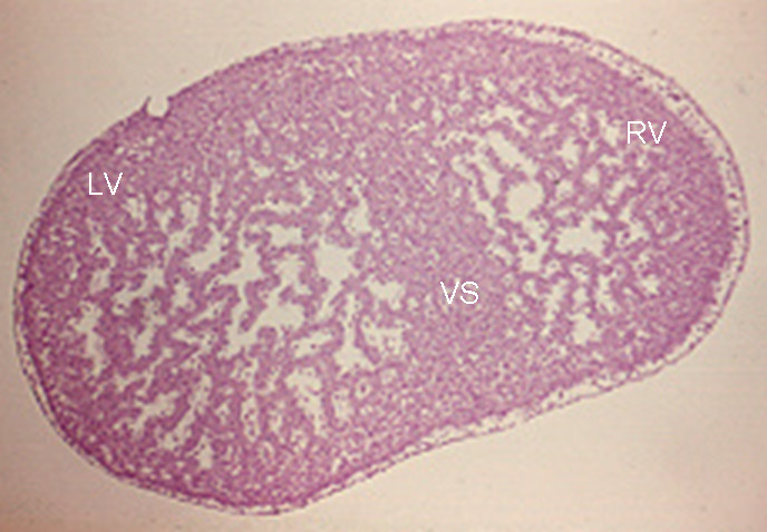 Microphotograph of a transverse section at the level of both ventricles of a heart that shows extensively developed trabeculae that fill the ventricular lumen. Note the form of the more compacted ventricular septum (arrow). 250 X. VS-Ventricular septum; LV: Left ventricle; RV: Right ventricle.